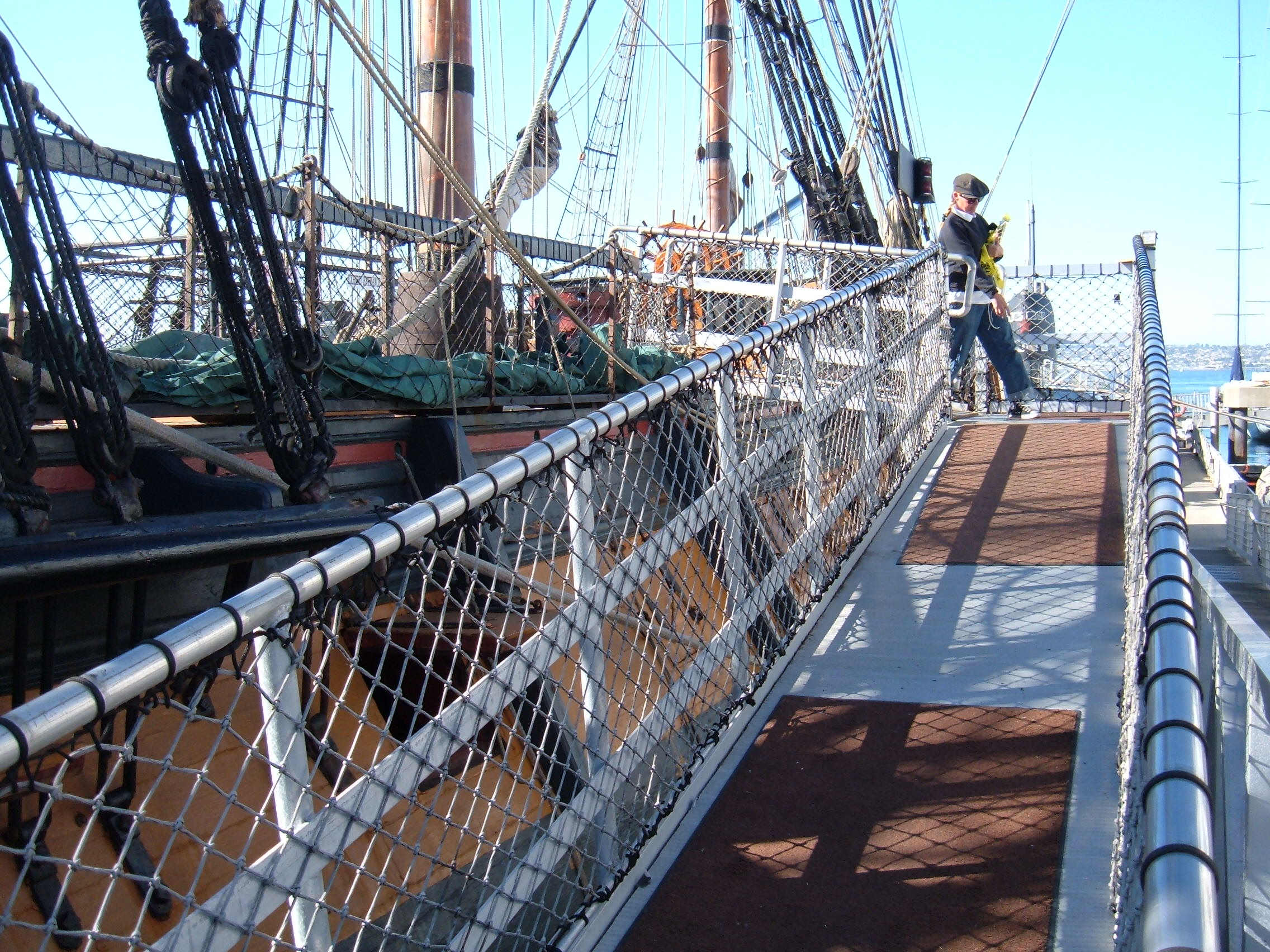 The gangway of the HMS Surprise at the Maritime Museum of San Diego.